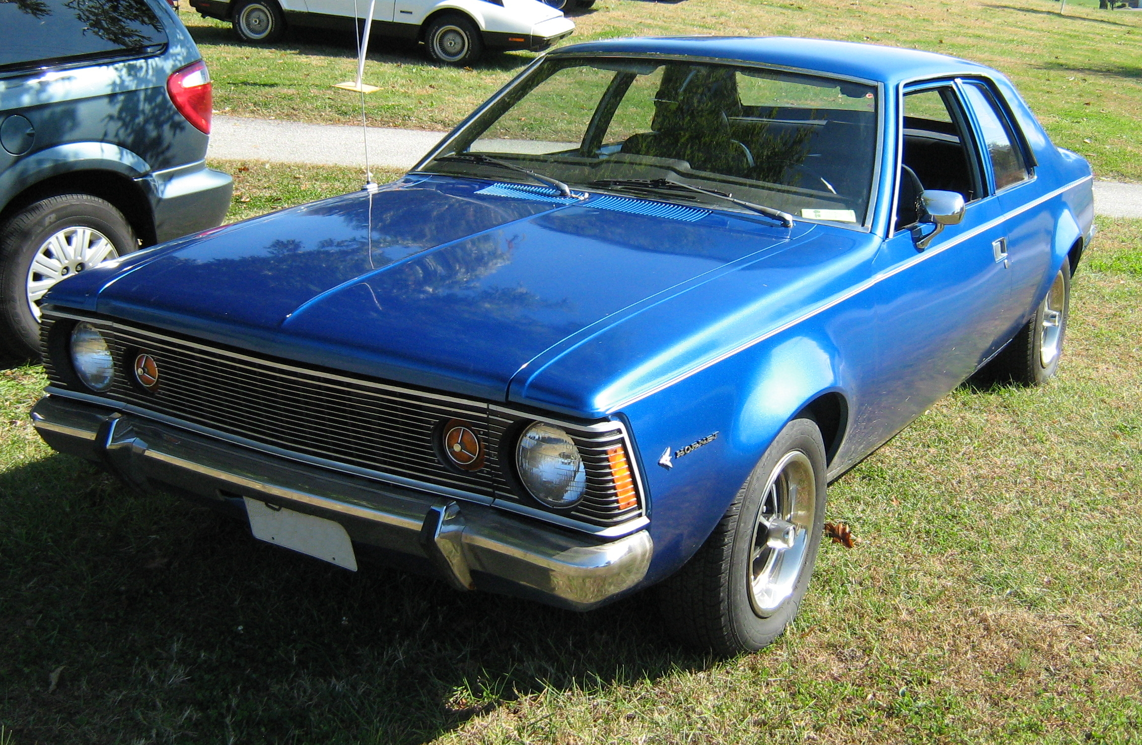 American Motors Corporation (AMC) 1971 Hornet two-door sedan (coupe) finished in blue. Base model with optional bumper guards and "Magnum 500" styled steel wheels.